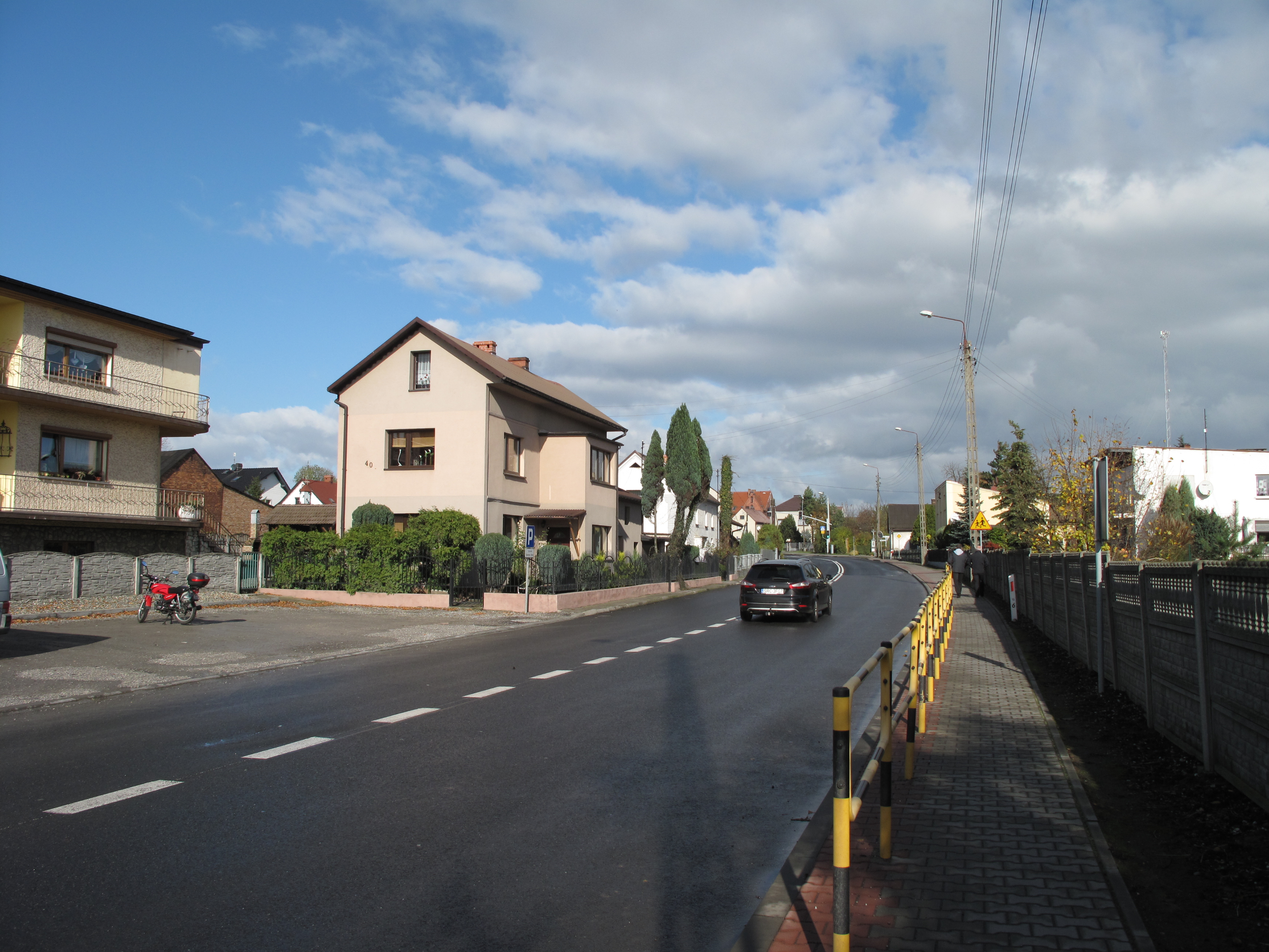 Bieńkowice. Racibórz County, Poland.